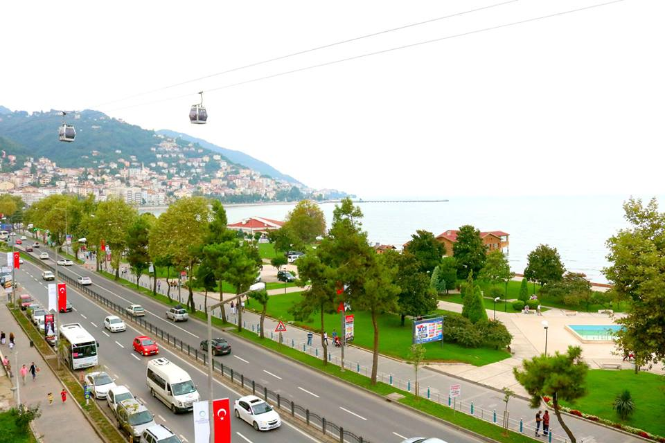 Ordu city view and boztepe mountain